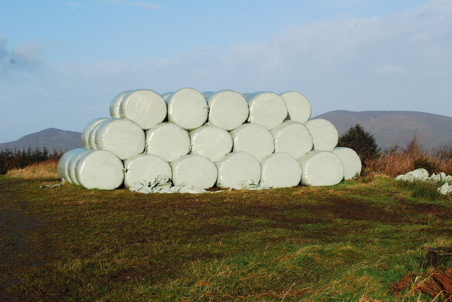 Well stored haylage bales. These bales are being used for supplementary feed for the ewes on the hill646020.